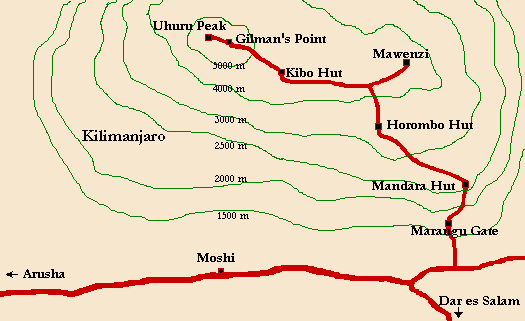 Kilimanjaro National Park - Tanzania Created by Esculapio